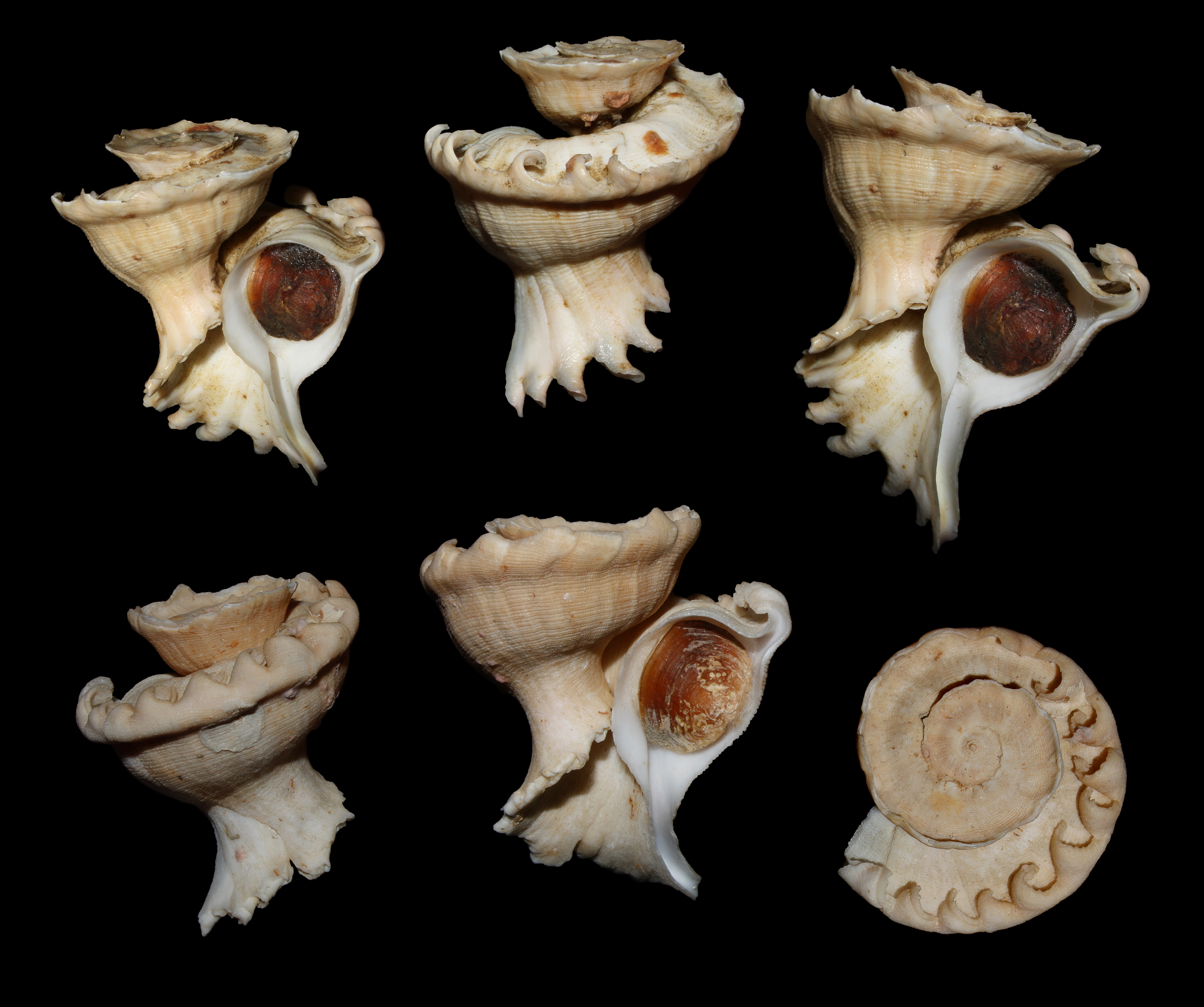 Latiaxis mawae Griffith & Pidgeon, 1834. Two specimens: 50 mm and 46 mm. Locality shell upper half: Taiwan Strait, S.W. Taiwan, before 1987. Locality shell lower half: near Amami, Tokara area, off Gajashima Island, Japan, at 180-200 m depth. caught May 2006.